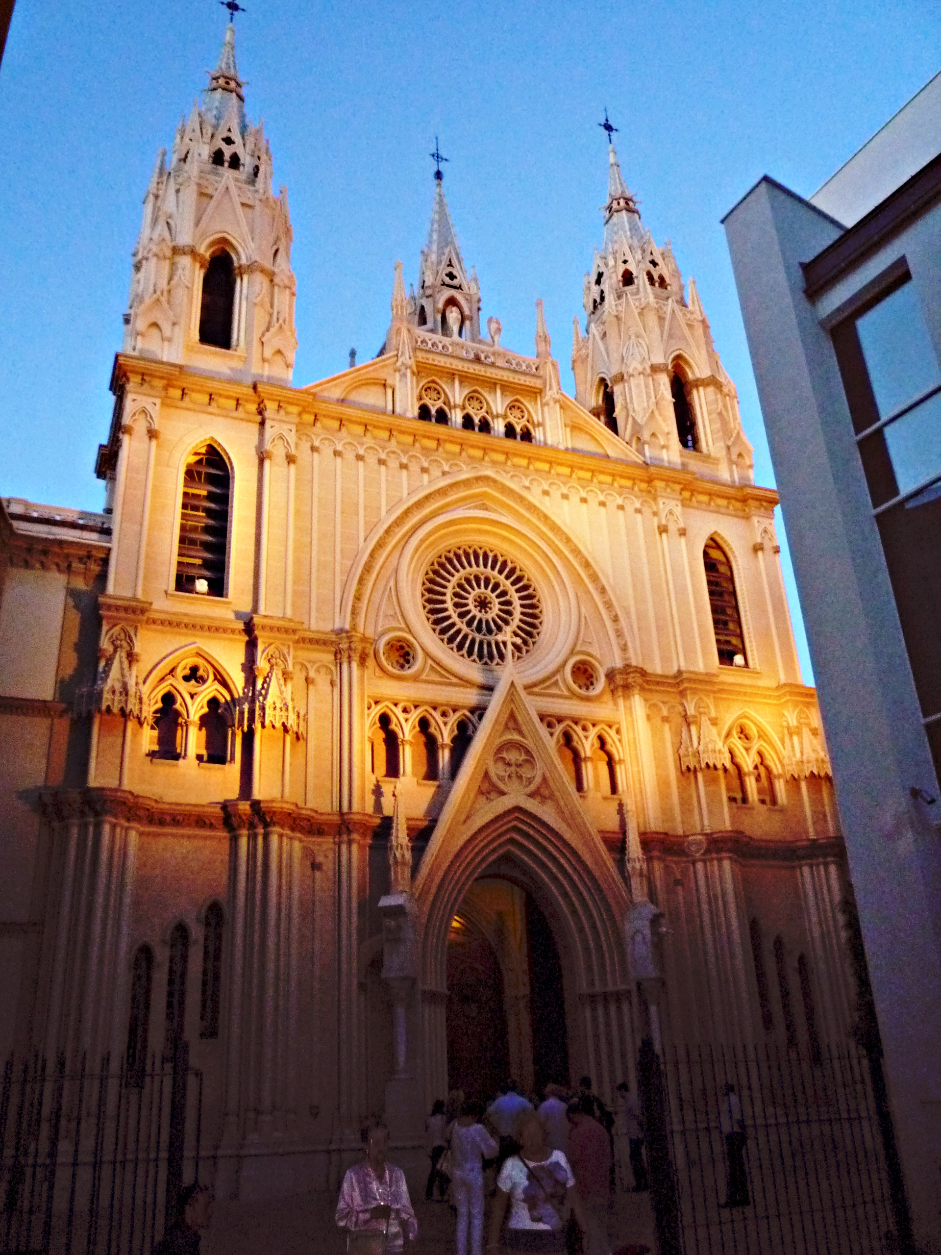 Sacred Heart Church, Malaga, Spain.